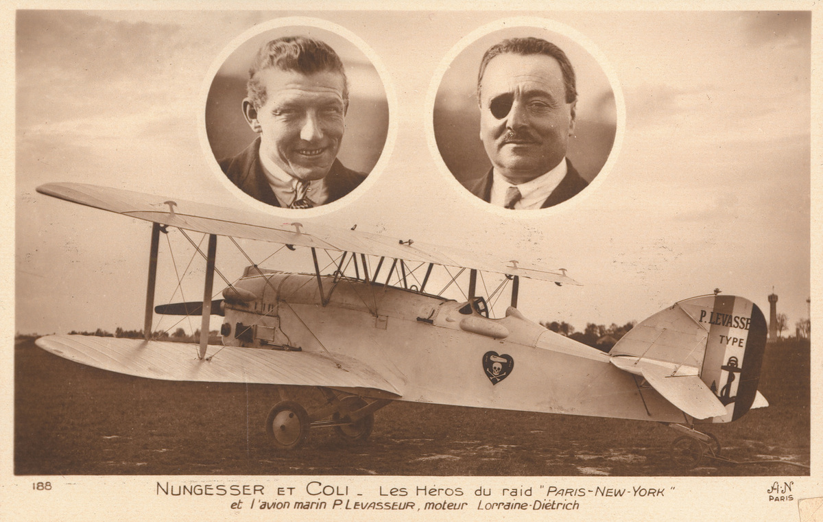 Post card of the White Bird, a French biplane which disappeared in 1927, during an attempt to make the first non-stop transatlantic flight between Paris and New York. The aircraft was flown by French aviation World War I heroes Charles Nungesser and Francois Coli.